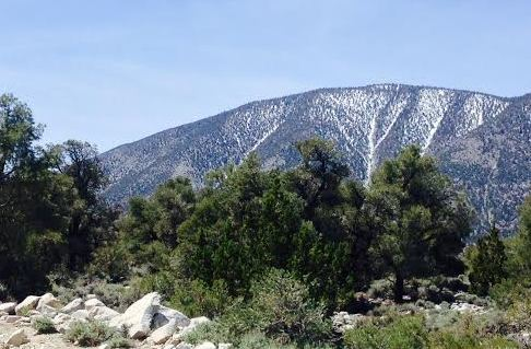 shot from the north east